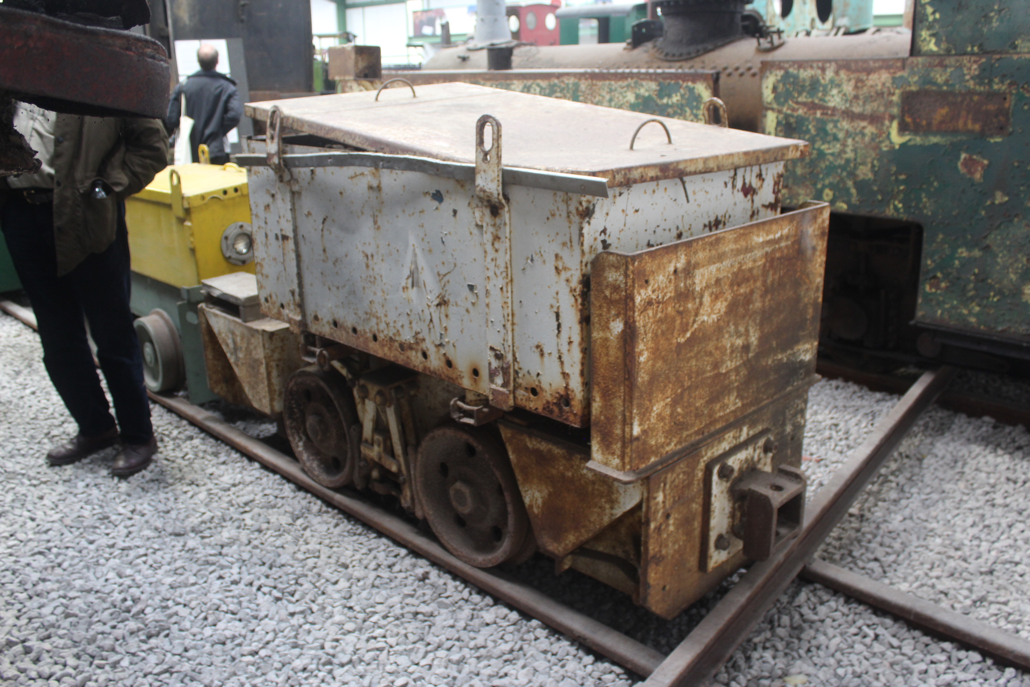 Wingrove & Rogers battery-electric locomotive works no. 6092 of 1958 formerly of Beckermet Mining Co. (2ft 6in (762mm) gauge) at Statfold Barn Railway, England